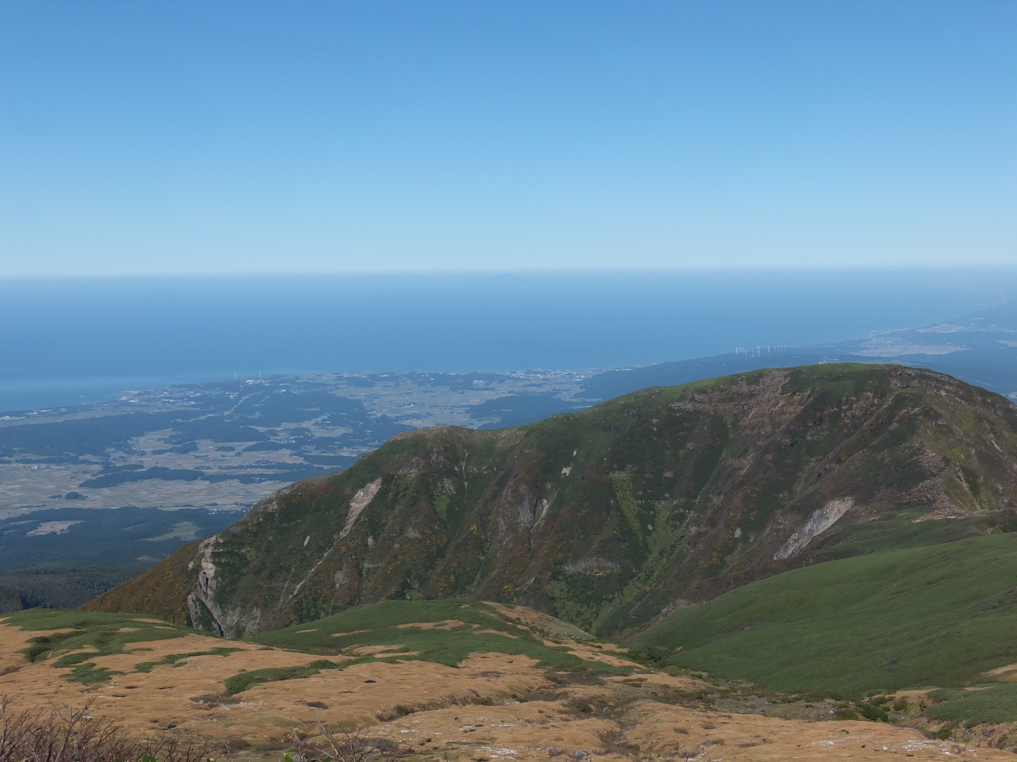 View from Mount Chokai, Japan